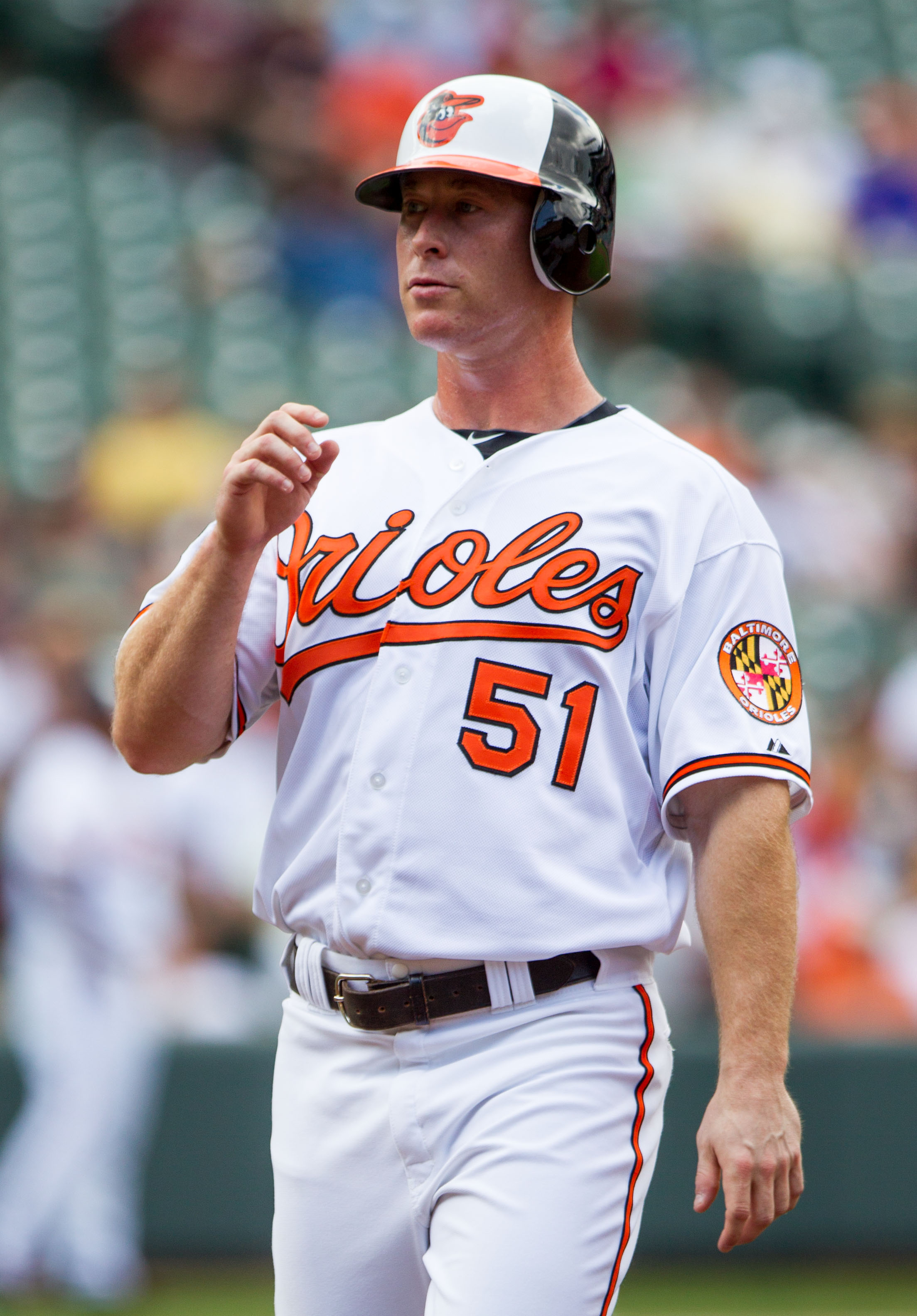 Lew Ford